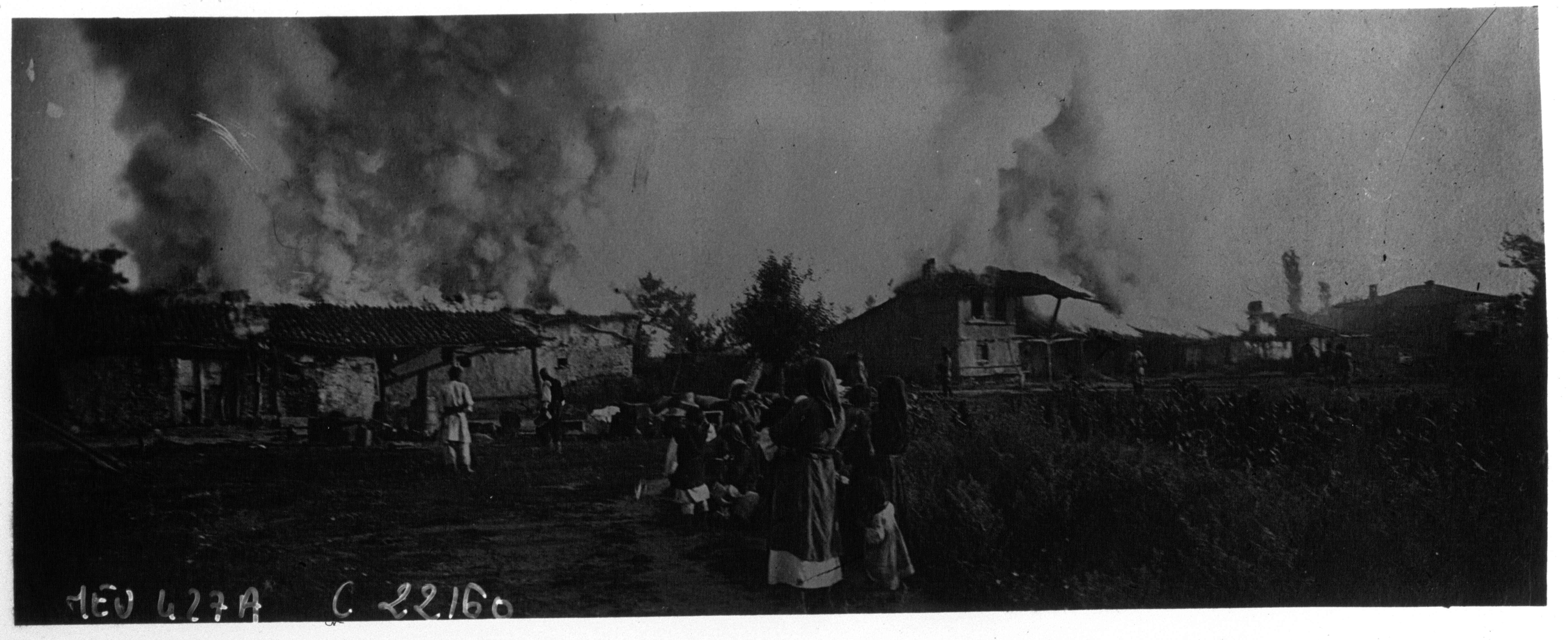 Retreating Greek troops burn down Turkish villages (August-September 1922). (translated from the original caption in french)